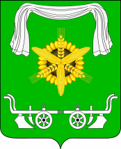 Coat of arms of Kubanski, Novopokrovskaya Raion, Krasnodar Krai, Russia